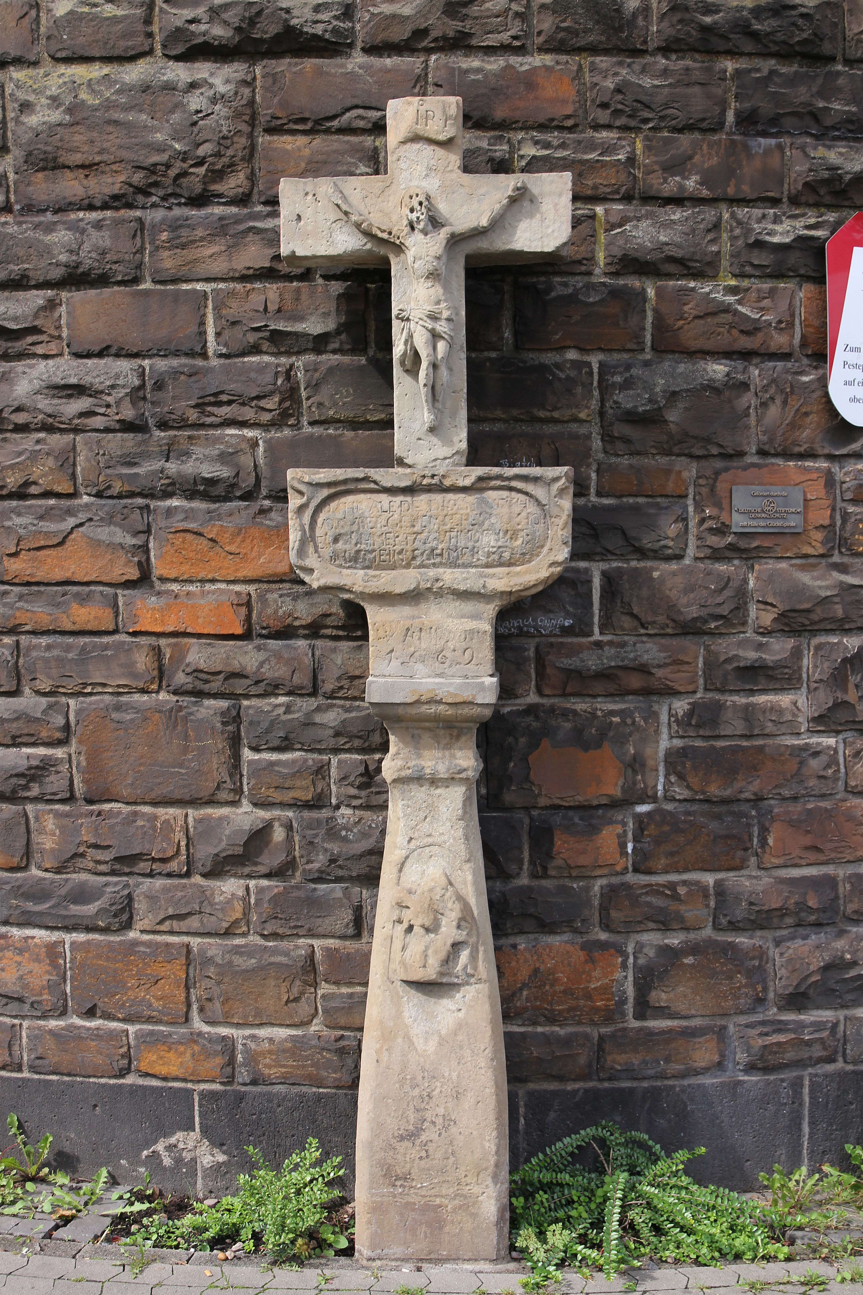 Plague cross in Koblenz